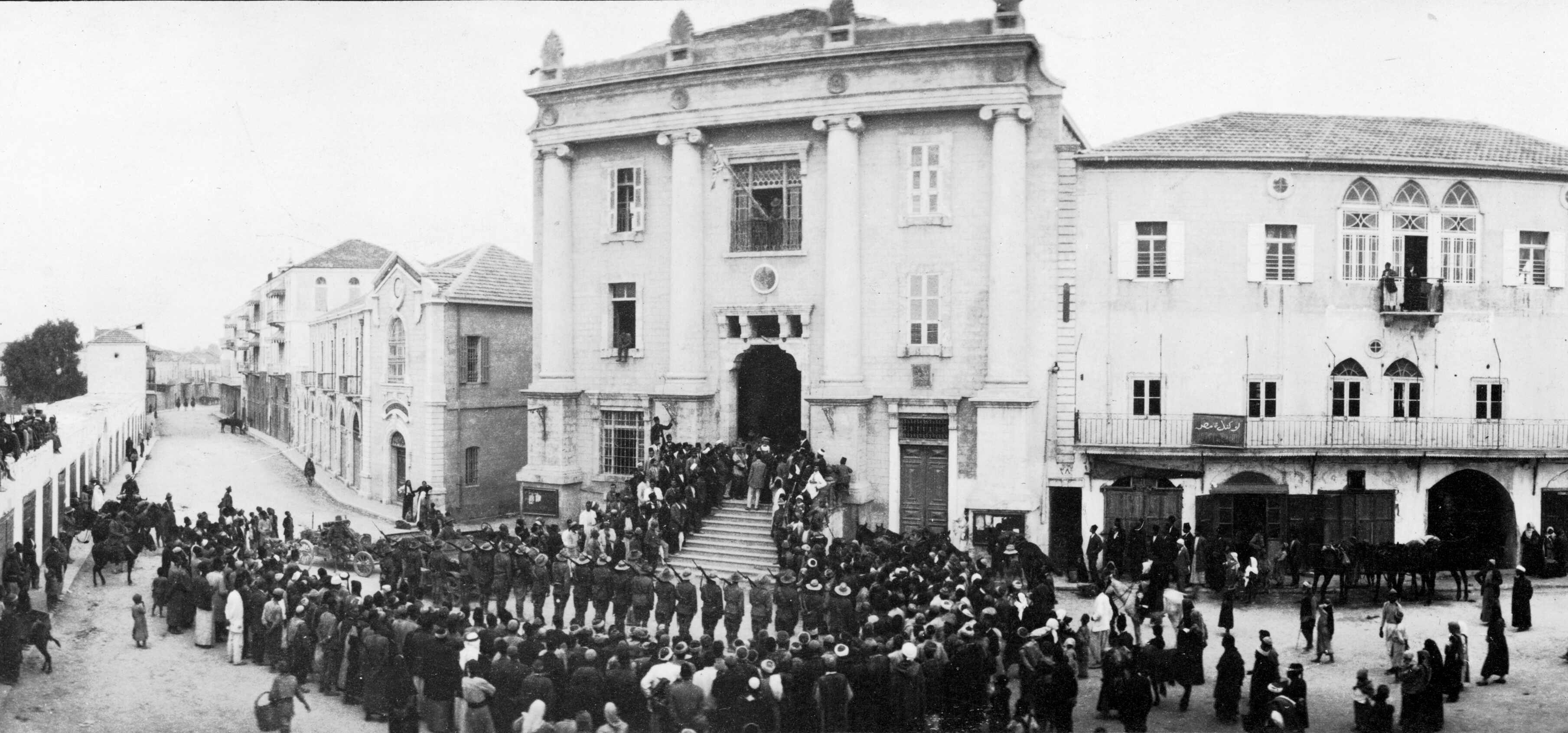 Photo of the surrender of Jaffa to New Zealand Mounted Rifles Brigade, taken on 16 November 1917 in front of the Town Hall